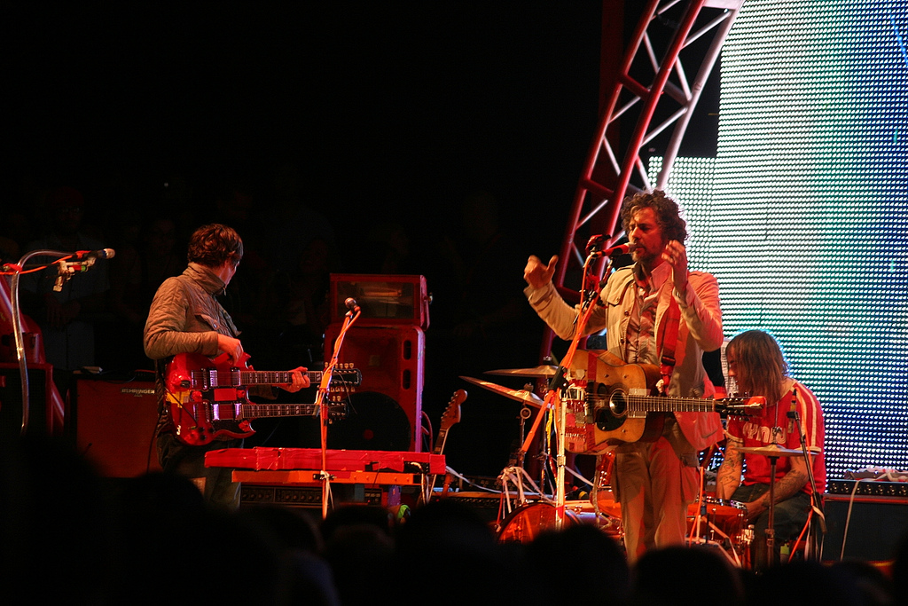 The Flaming Lips, Southern Comfort Music Experience, Alliant Energy Center, Madison, Wisconsin, September 8, 2007.